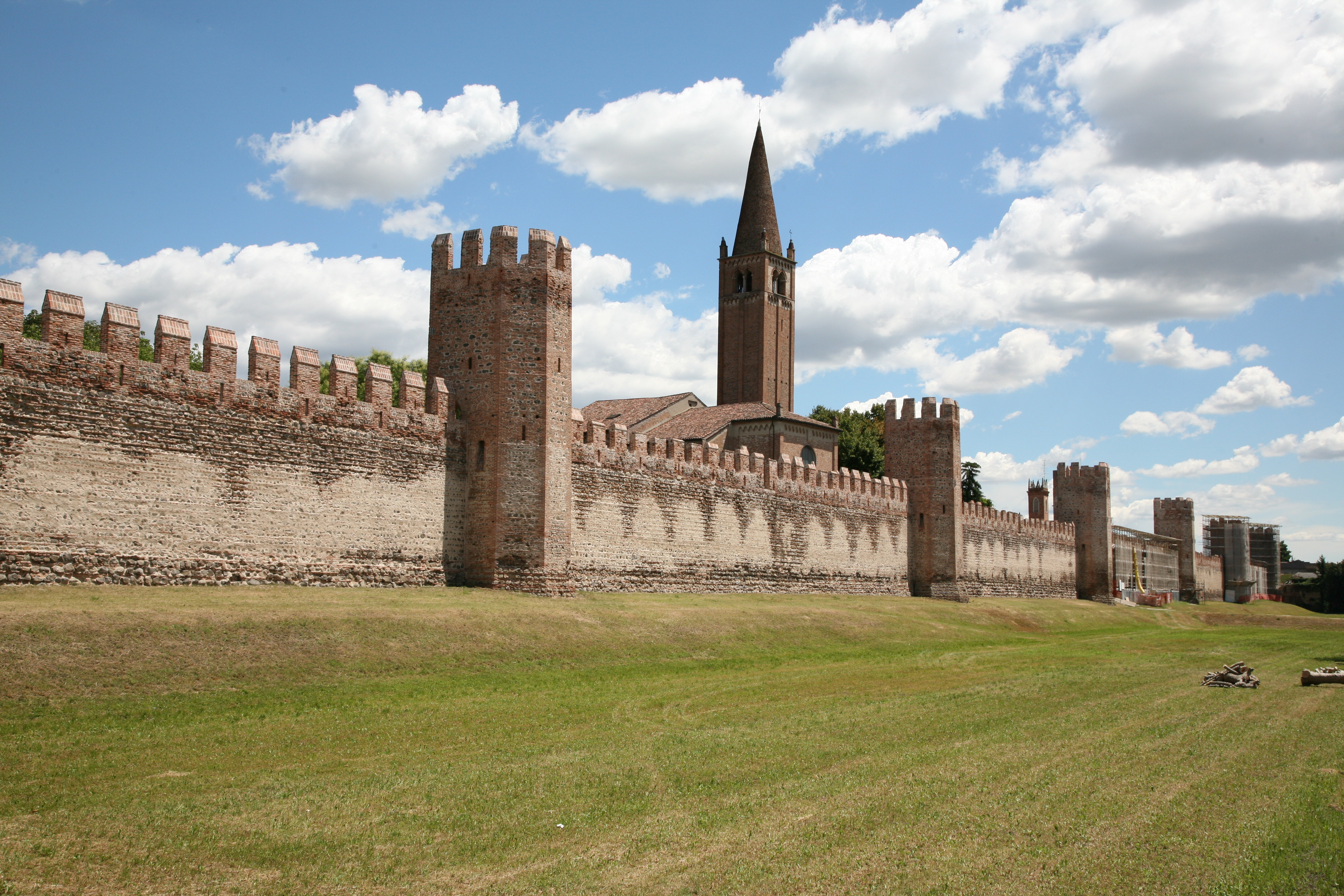 City wall of the town Montagnana. Near the south gate.